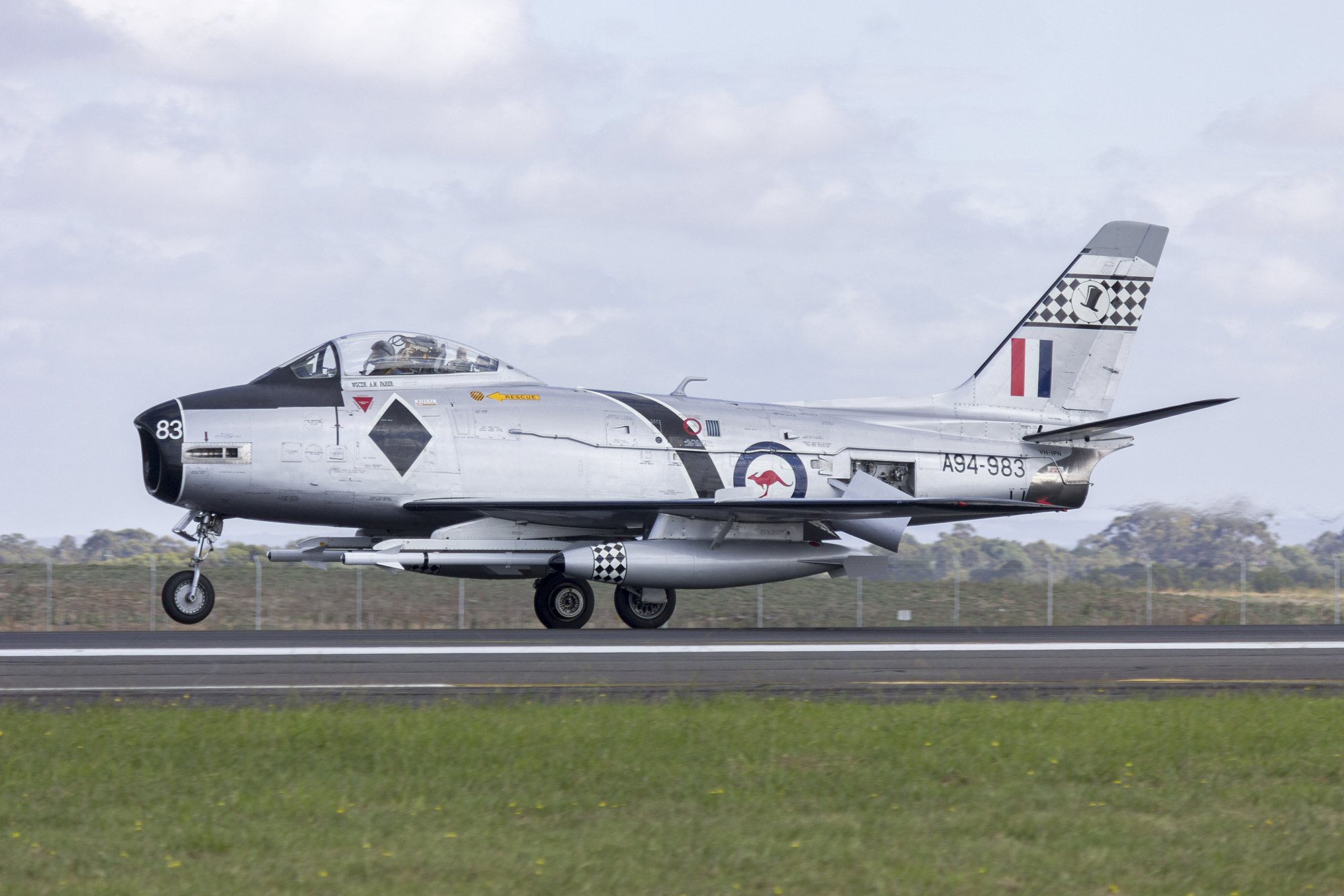 Royal Australian Air Force, on loan to the Temora Aviation Museum, (VH-IPN, former military registration A94-983) CAC Sabre Mk.32 landing at Avalon during the 2015 Australian International Airshow.